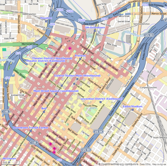 This map of Downtown Houston was created from OpenStreetMap project data, collected by the community. The image should remain clear of any additional edits. To annotate the map for an article, use the Infobox or Location Map template and reference the map using map module Houston Downtown. This map may be incomplete, and may contain errors. Submit corrections to the below source link. Do not rely solely on the map for navigation. Steven Driskell Image for Map Module : Houston Downtown Latitude north = 29.76989 Latitude south = 29.74553 Longitude west = -95.37575 Longitude east = -95.34575 Map symbology